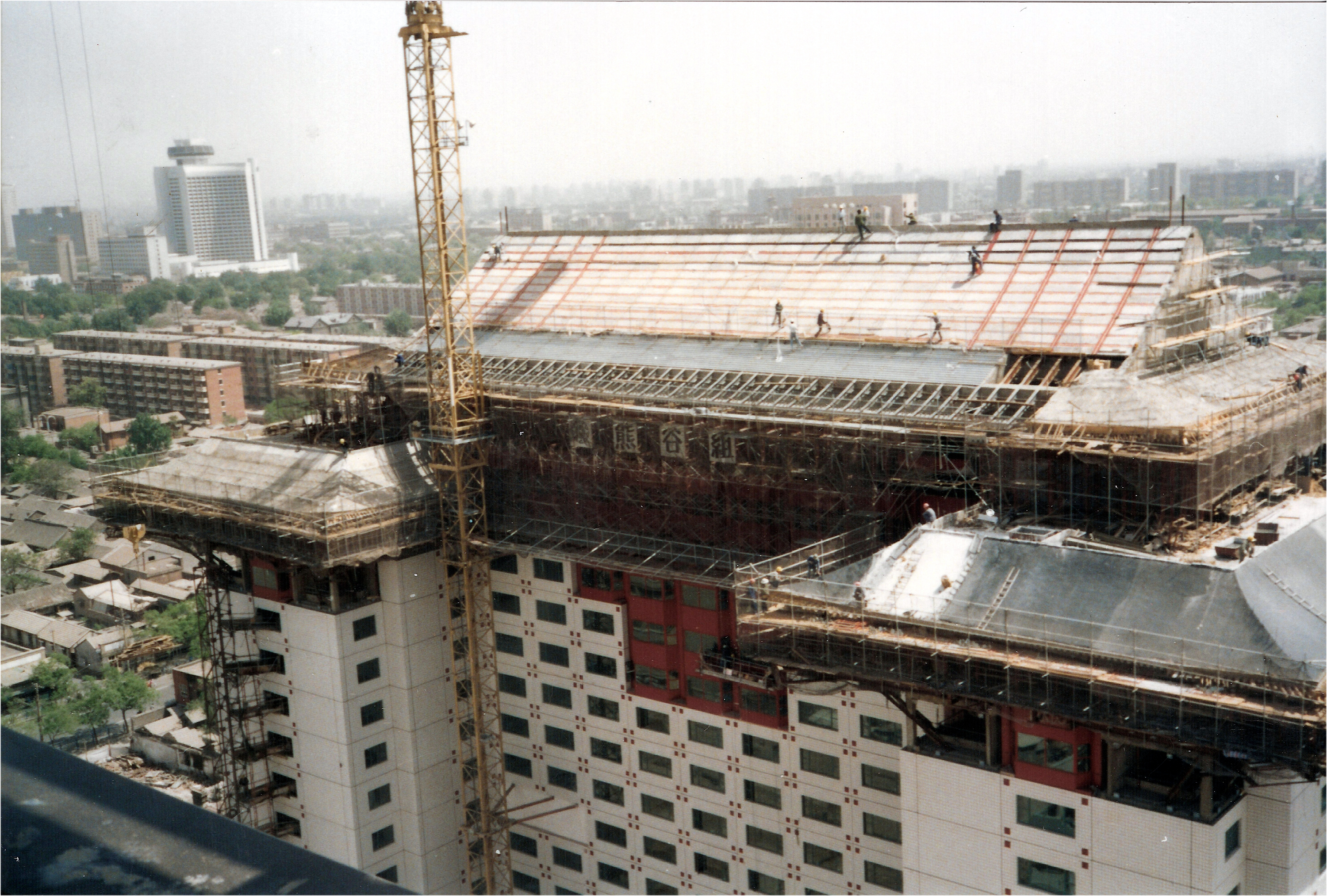 The Peninsula Beijing in 1989